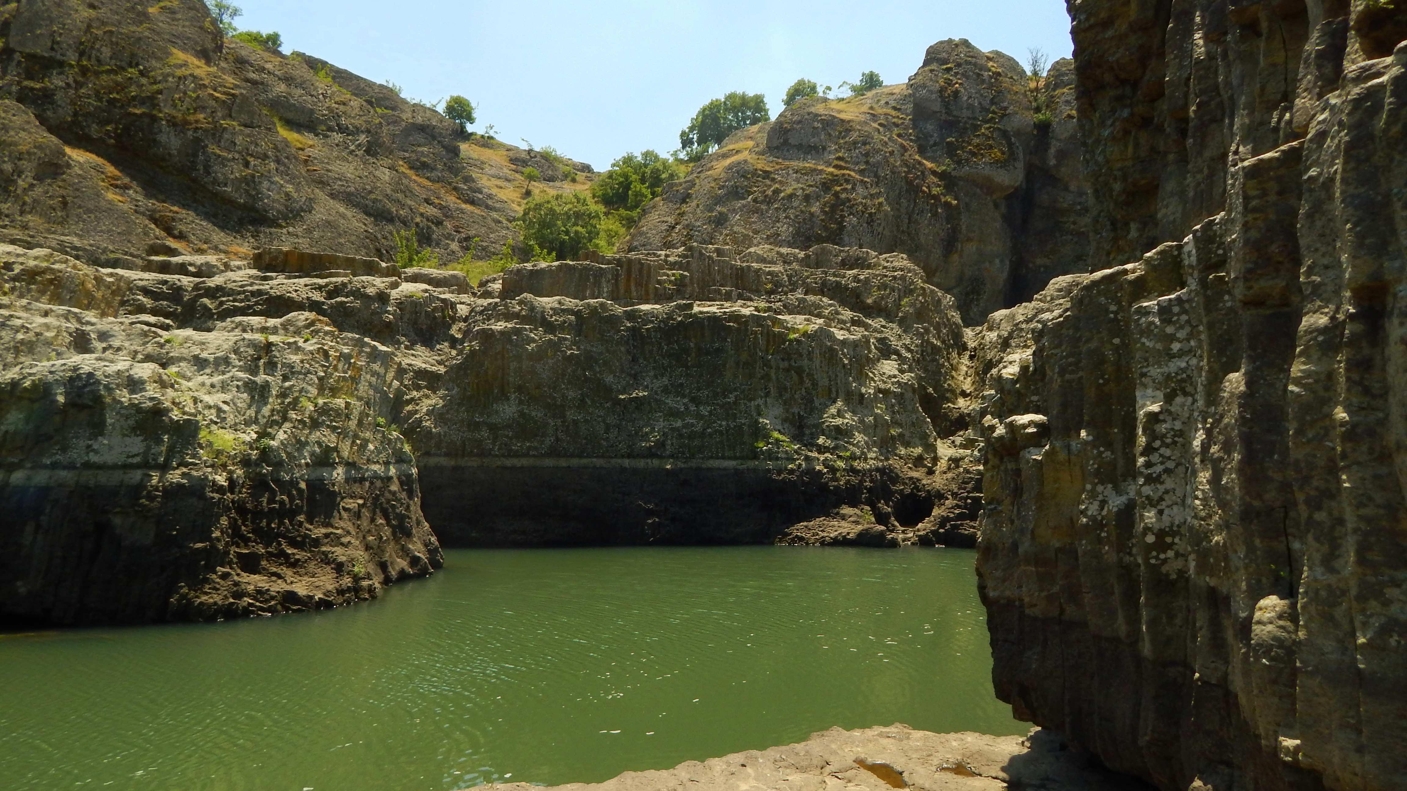 Devil canyon. Rabovo